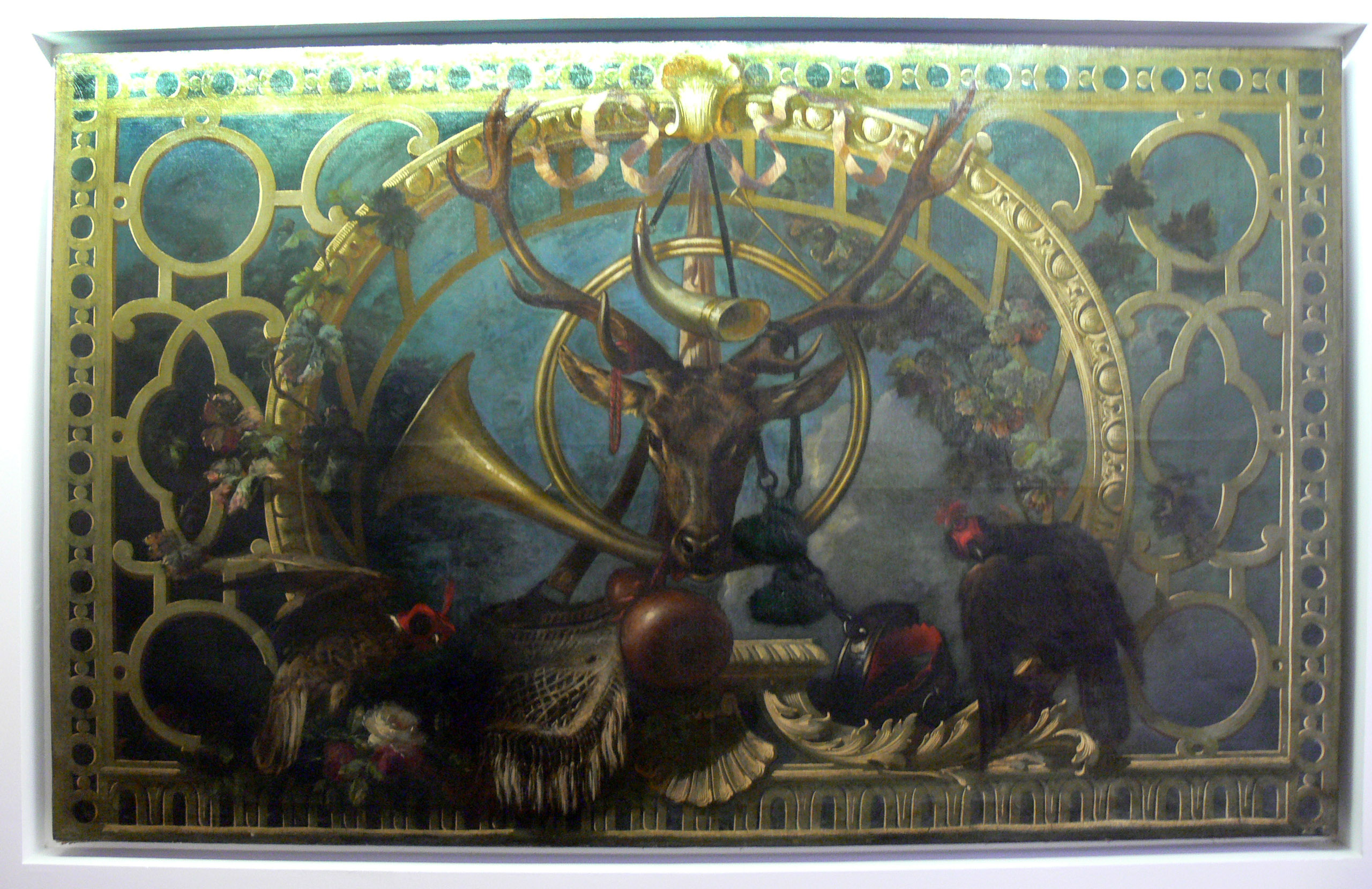 Painting made by the french painter Jules-Pierre-Michel Dieterle (1811-1889). Title : "Trophée de Chasse" (1892). Jules-Pierre-Michel Dieterle (1811-1889) "Trophée de Chasse" (1892), Huile sur toile. IL s'agit d'un Carton de tapisserie pour le décor du Palais de l'Elysée ; Ce "carton" est un Dépôt du Mobilier National en 1892 aujourd'hui transféré et conservé au musée "La Piscine, Musée d'Art et d'Industrie (Roubaix)" (N° inventaire : 6103-1086-5)